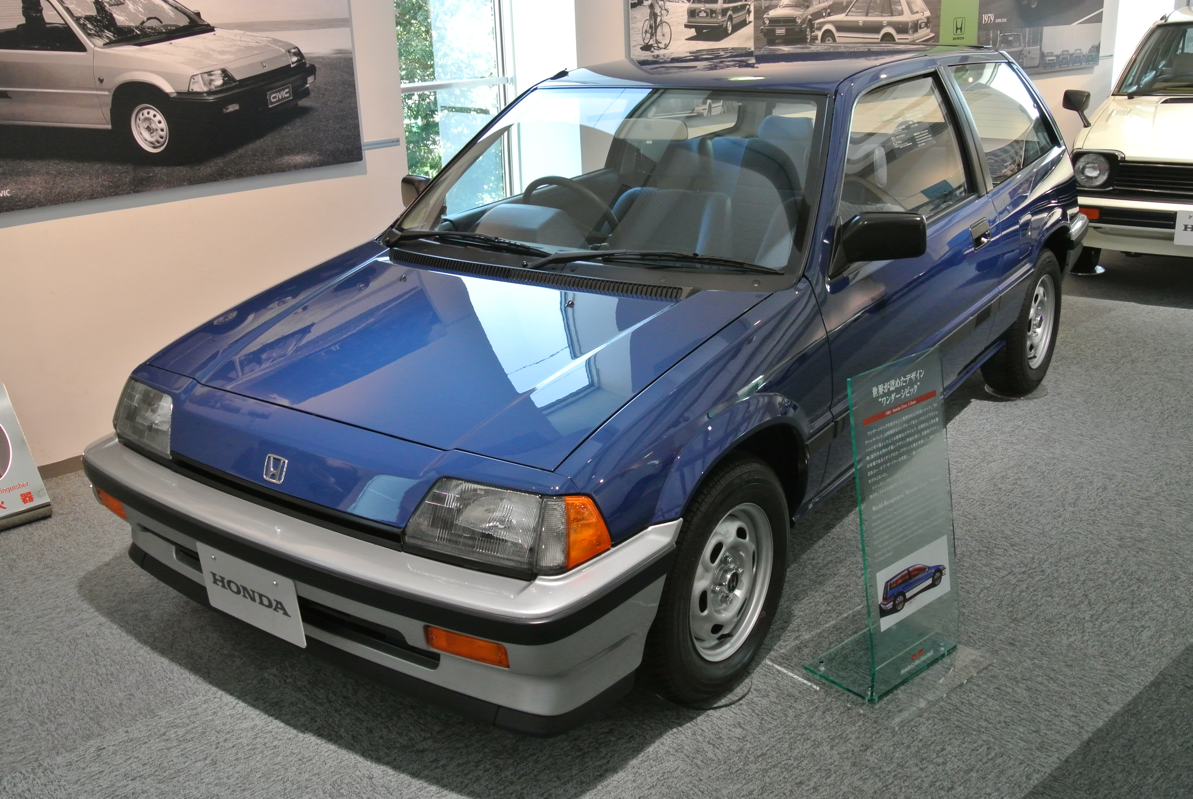 Honda Civic 3rd gen in the Honda Collection Hall.